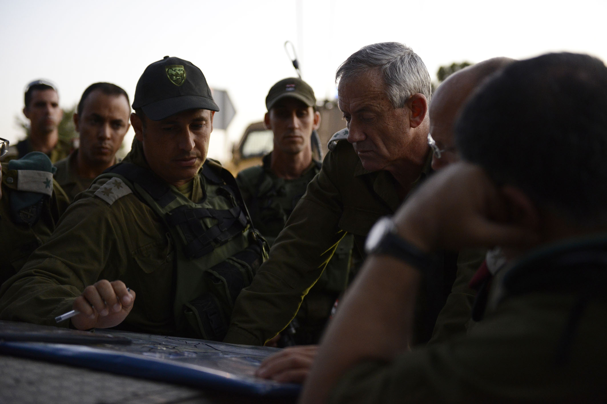 Chief of the General Staff Lt. Gen. Benny Gantz visited IDF bases in Judea and Samaria Tuesday (June 17) as a part of Operation Brother’s Keeper.